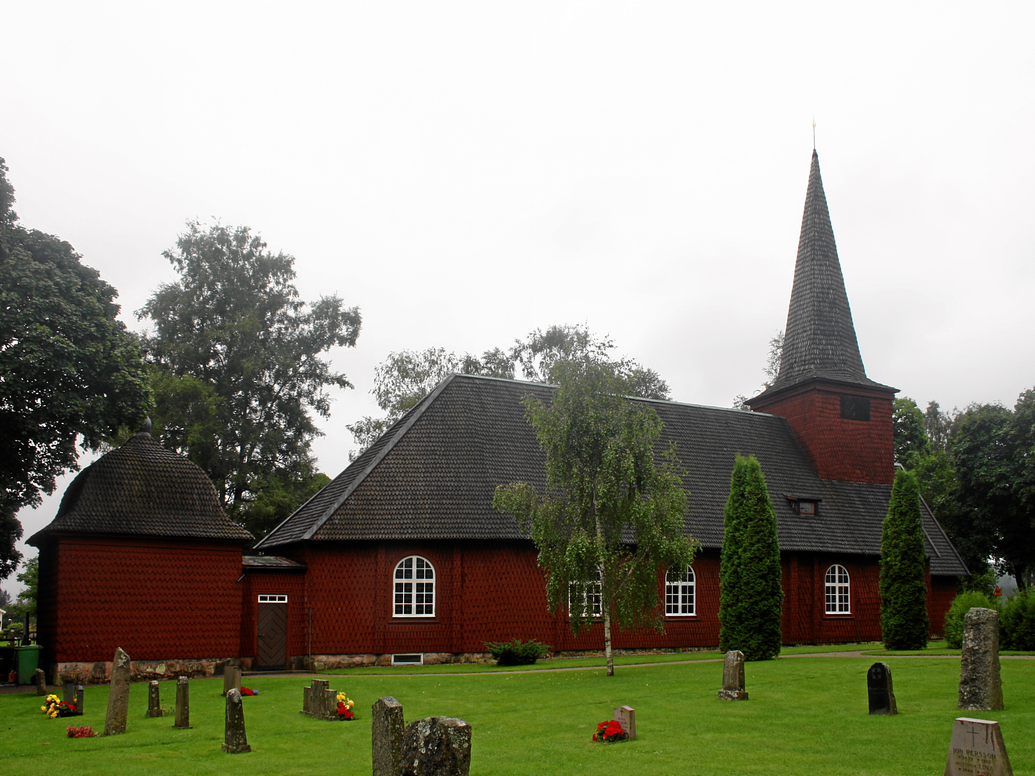 Sunnemo in Hagfors kommun, Sweden. Parish church from North.